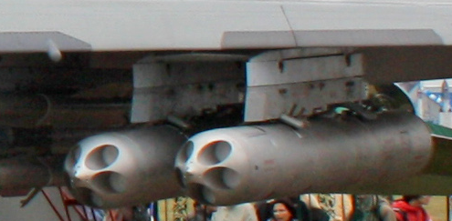 Pair of FFAR pods (B-13L, five S-13 rockets each) on underwing pylons of Su-30MK jet